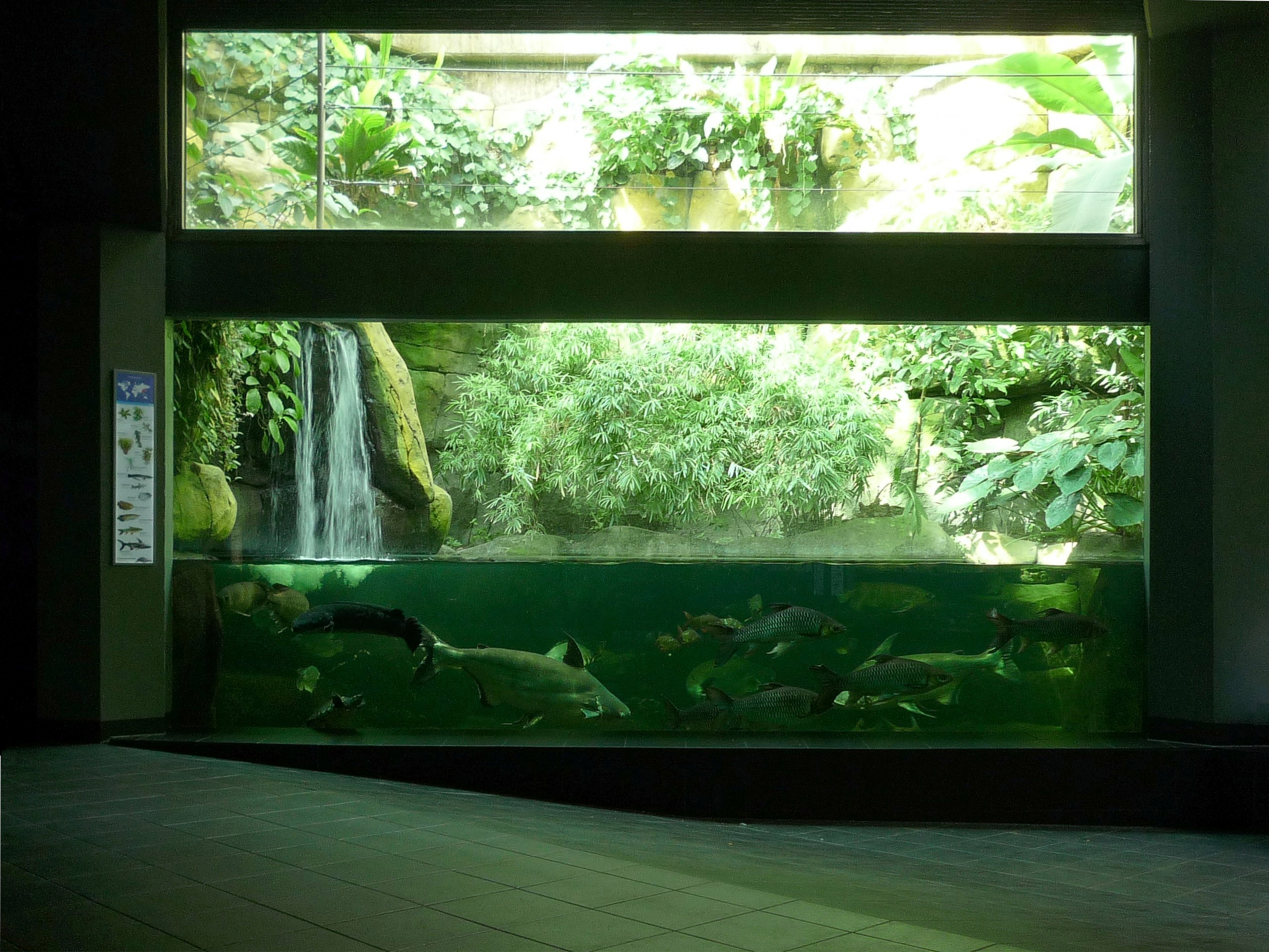 Zoo Aquarium Berlin. Plants and fishes from South East Asia in the enlargement-building.